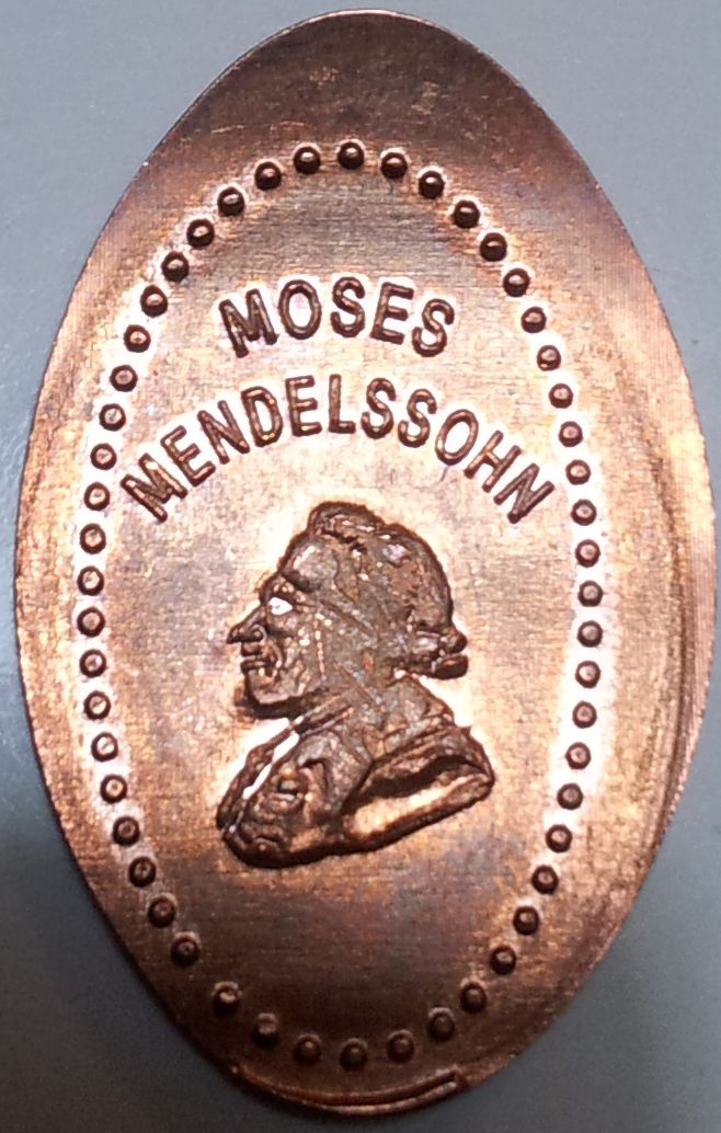 Souvenir with historical portrait of Mendelssohn from the Jewish museum in Berlin